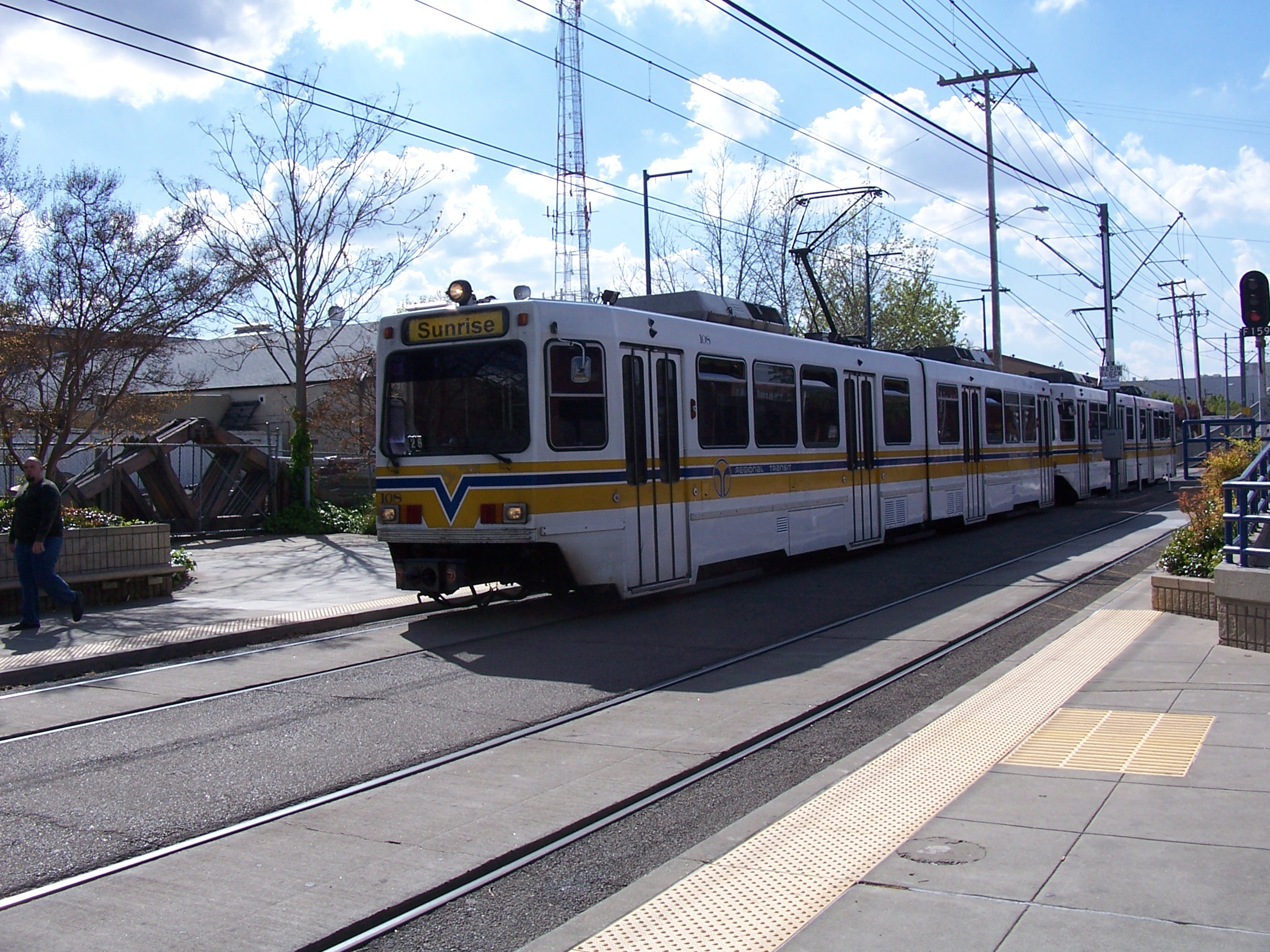 ... heading out of downtown at 23rd St Station.